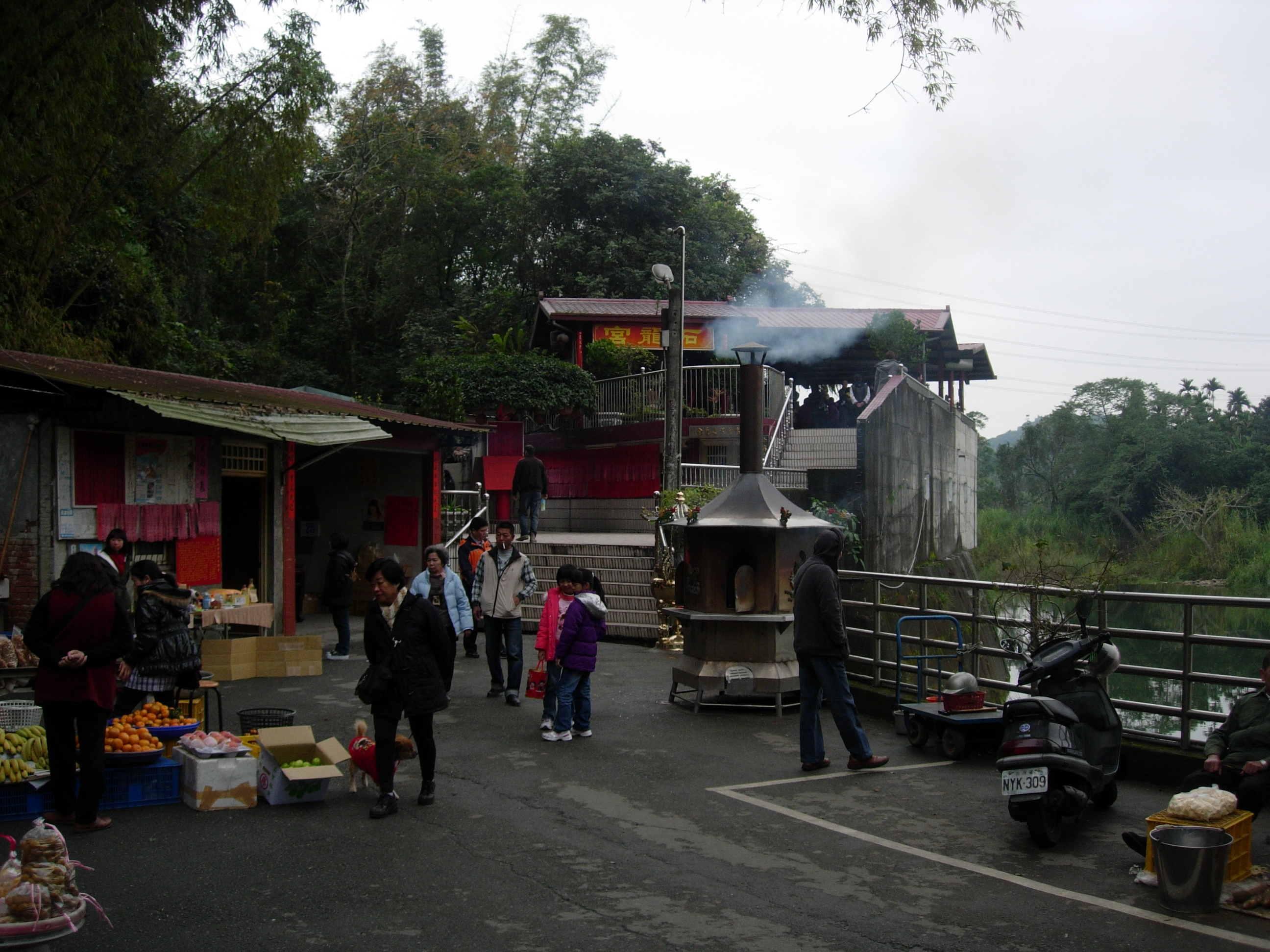 Jhongliao Shihlong Temple